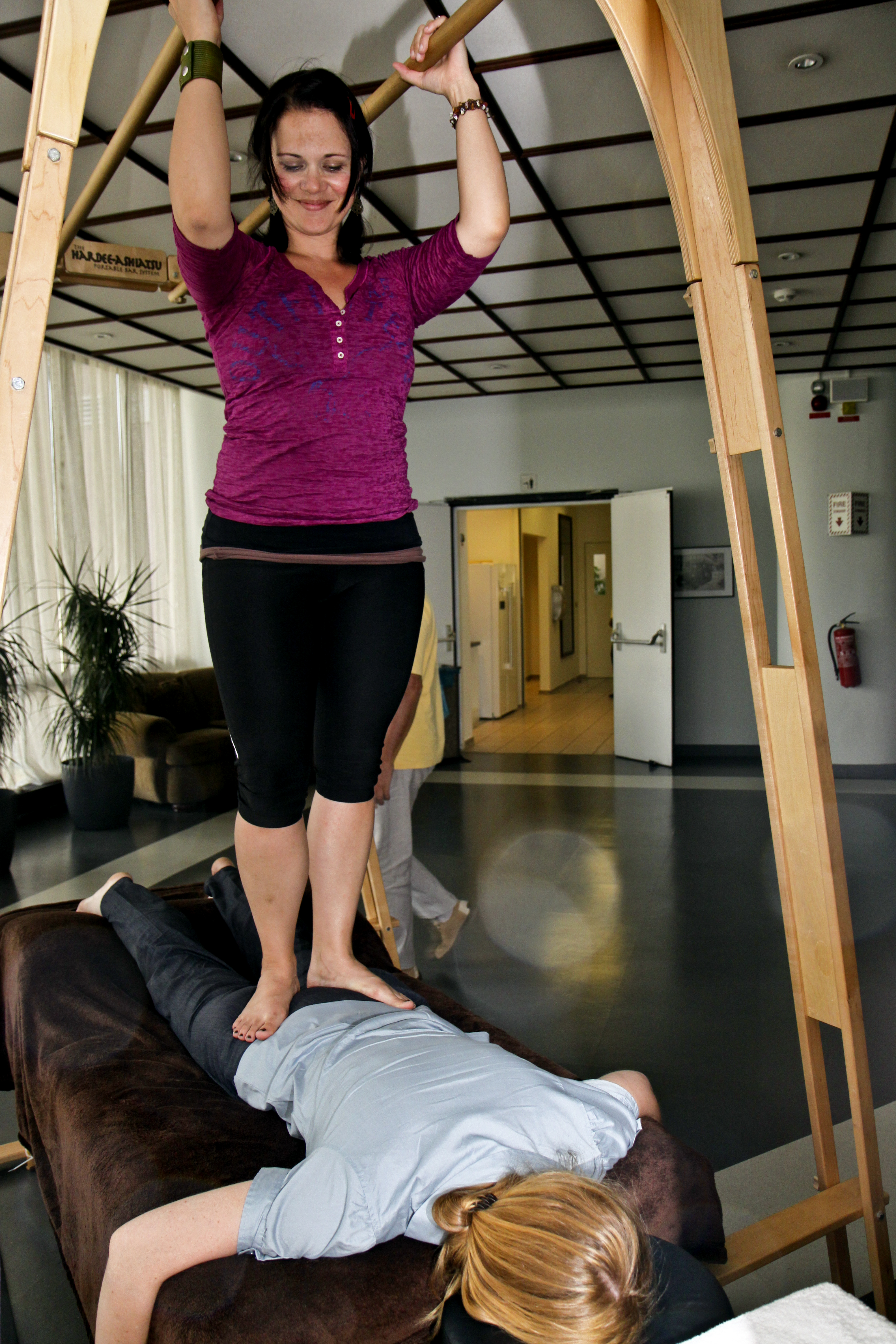 Dawn Dotson, a licensed massage practitioner, performs Ashiatsu massages on U.S. Army Corps of Engineers Europe District employees, May 10, 2011, as part of the district’s Health Fair. The annual event runs through May 12 and includes CPR and Yoga classes, health assessments and a 5k Fun Run/Walk. (U.S. Army Corps of Engineers photo by Carol E. Davis)